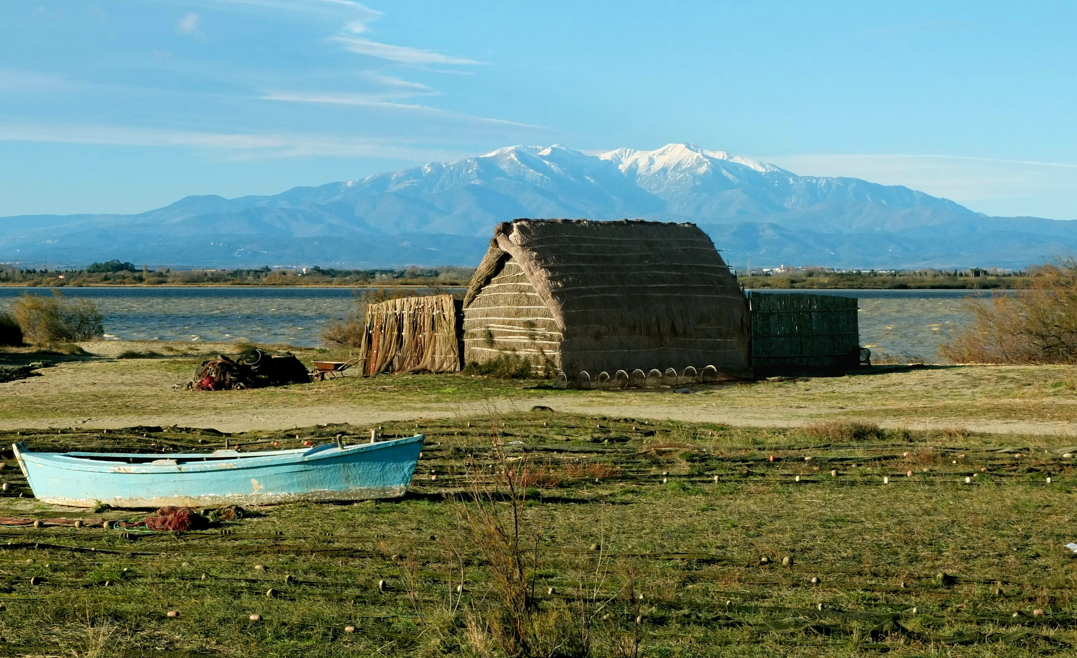 Traditional fishing house at Canet-Plage (France), Étang de Canet-Saint-Nazaire and mount Canigou in the backgound.